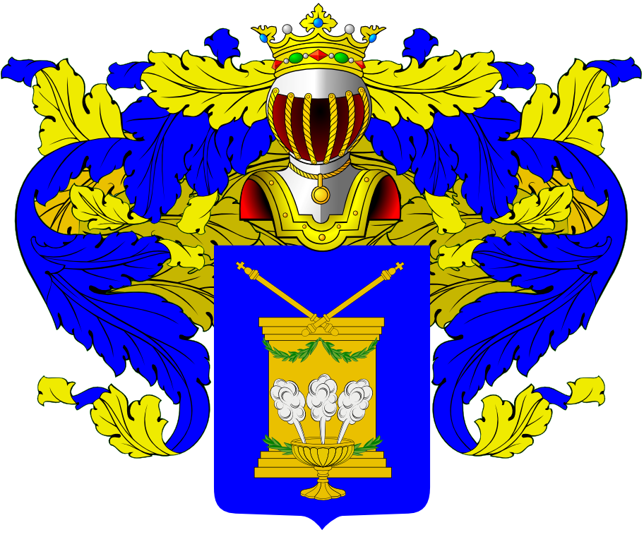 COA of Garsevanov family